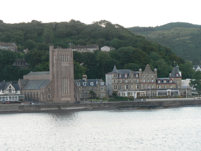 Oban: Catholic cathedral and Alexandra Hotel Looking from the ferry, about to arrive from Mull, at the Catholic cathedral of St. Columba and its neighbours.